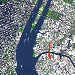 Based on public domain image NASA/GSFC/METI/ERSDAC/JAROS, and U.S./Japan ASTER Science Team, altered by author (red).